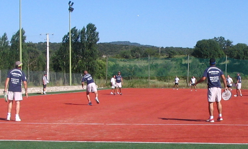 Tamburello at Notre-Dame-de-Londres (Hérault, France). Match of the Division 1 French championship : Notre-Dame-de-Londres Vs. Cournonterral, saturday june 28th 2008.